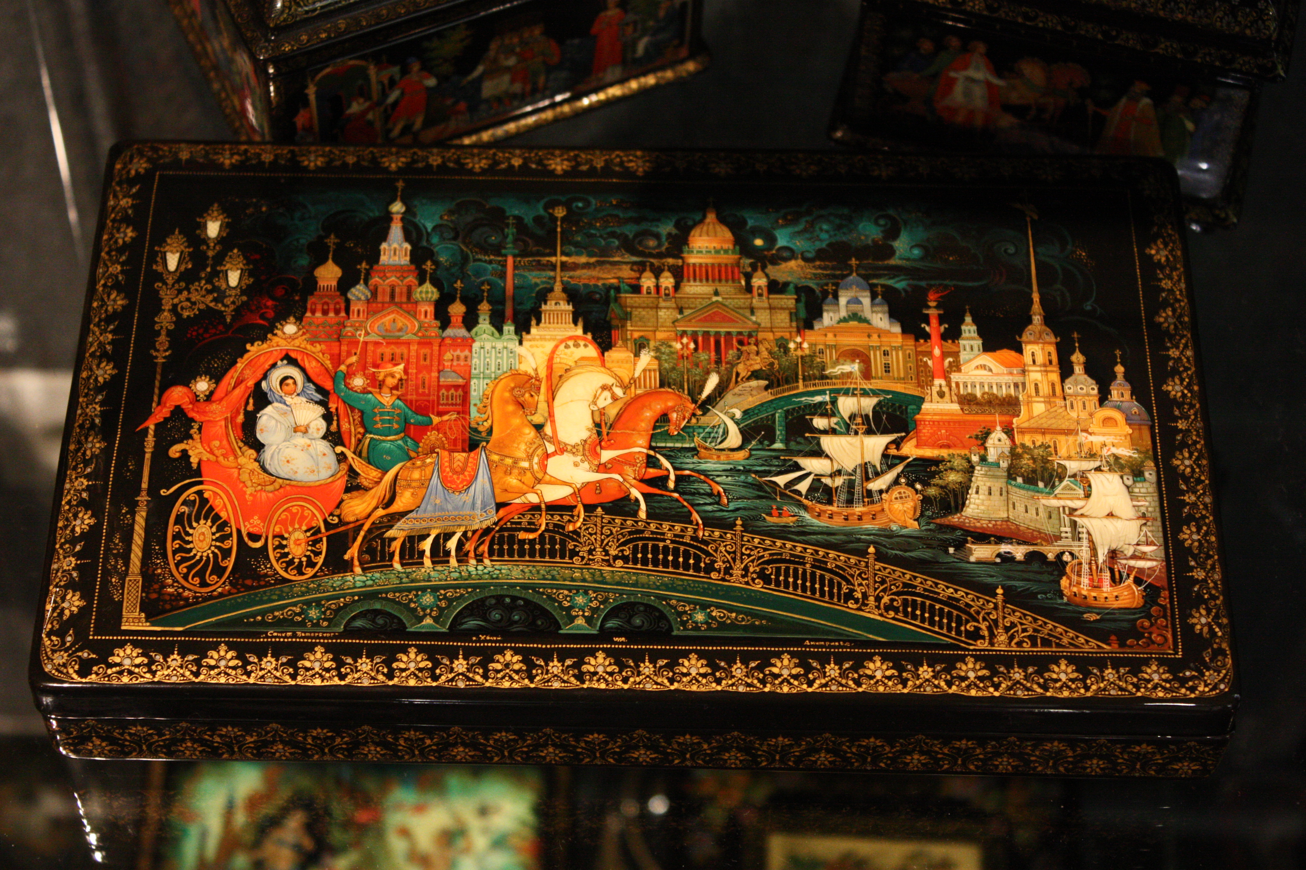 Russian lacquer art, russische Lackminiaturen, St. Petersburg, 2009, magazin Berjoska, for foreign tourists